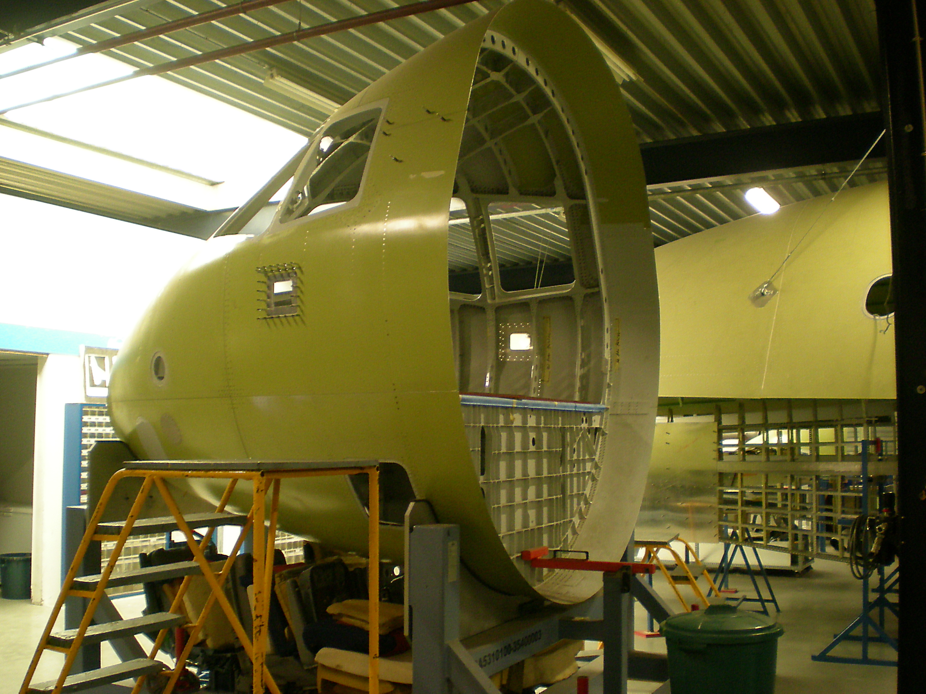 A cockpit section manufactured by SABCA at Gosselies for what would have been the sixth aircraft produced as part of the Fairchild Dornier 728 family. Works were halted in 2002 when Fairchild become insolvent and ceased trading.